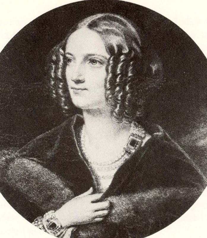 Amelia of Sweden and Vasa (1805-1853), daughter of King Gustav IV Adolph